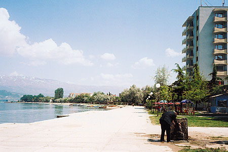 Hotel Royal in Pogradec, Albania